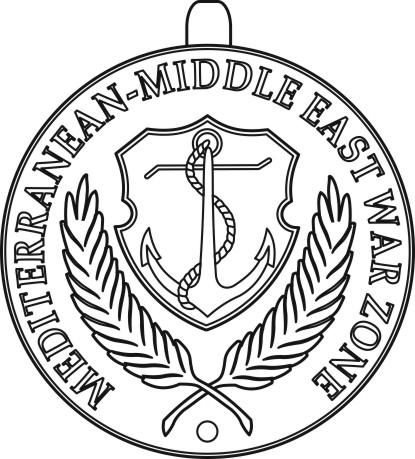 Merchant Marine Mediterranean-Middle East War Zone Medal obverse